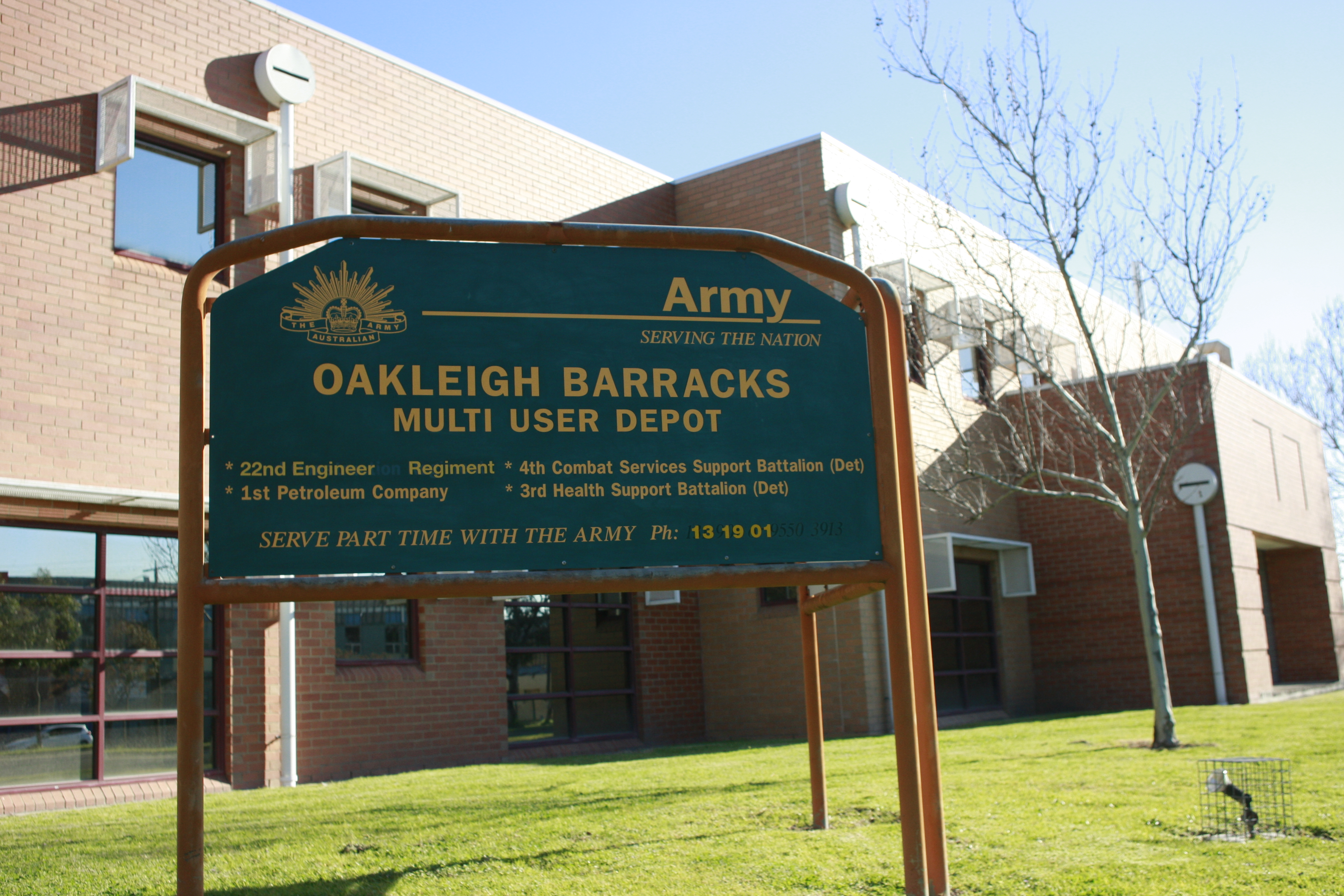 Signage Oakleigh Barracks in Oakleigh South, Melbourne, Australia